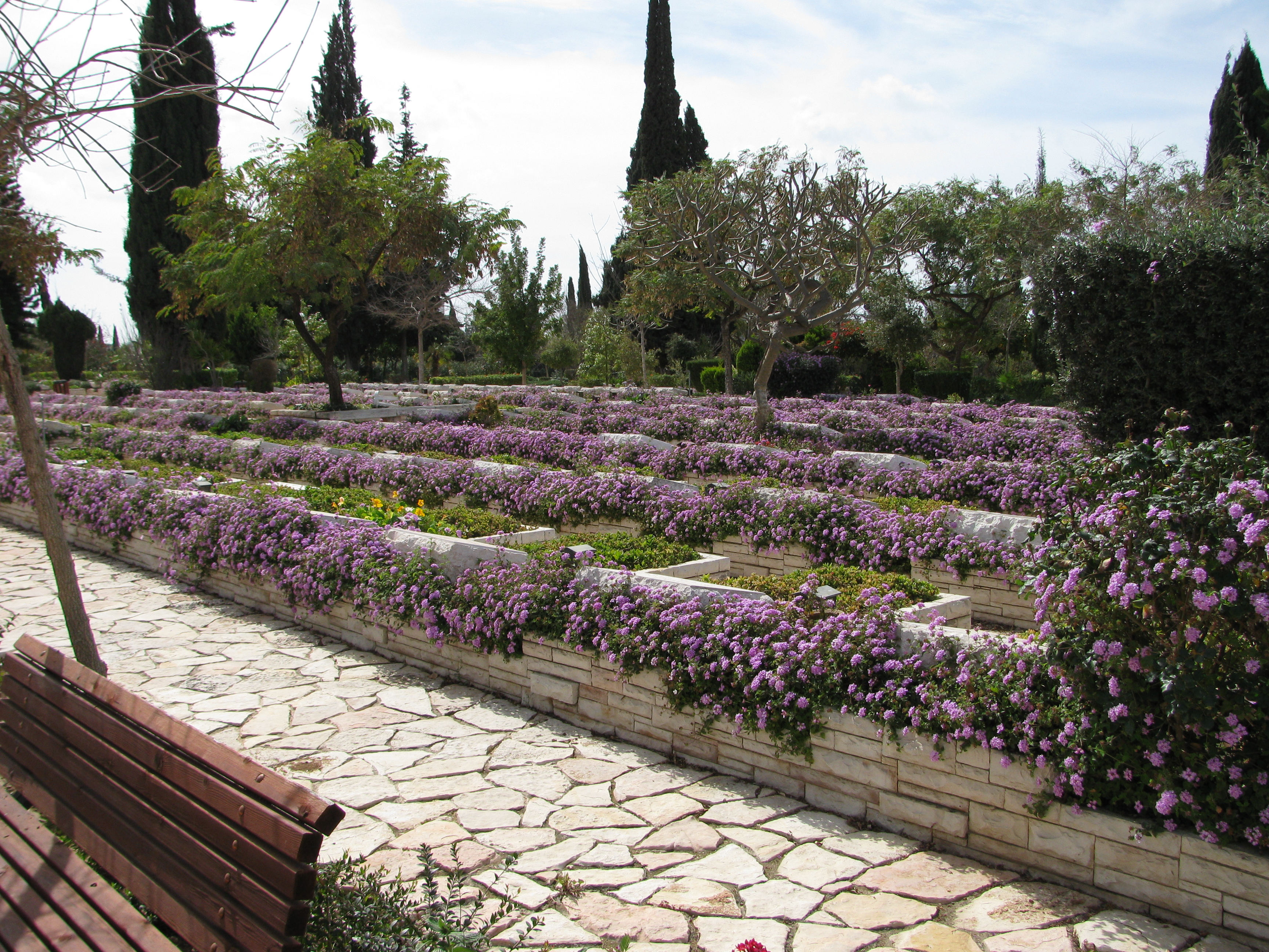 Kiryat Shaul cemetery in Tel Aviv, the military plot